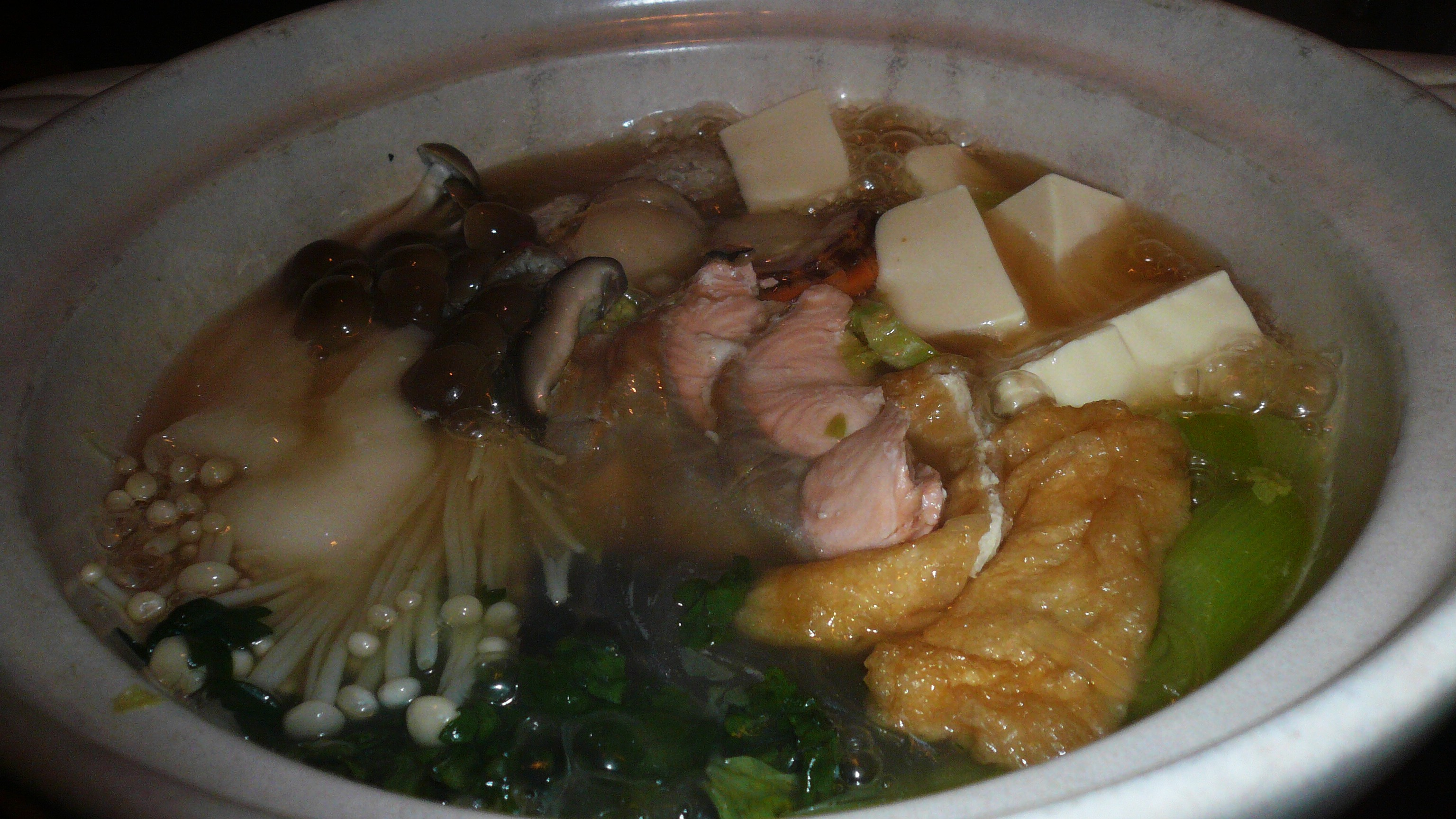 A pot of Chankonabe boiling near Ebisu station.